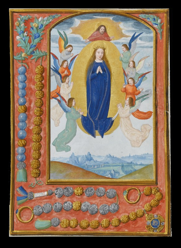 Hours of albrecht of brandenburg fitzwilliam